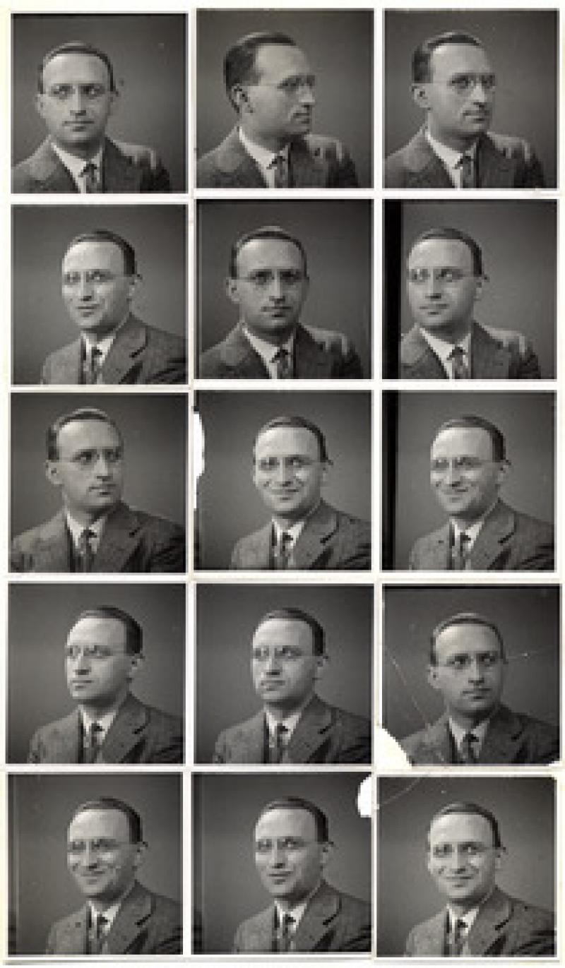 15 photographs of Marnix Gijsen (1899-1984), made in 1930. Collection Letterenhuis, Antwerp, Belgium. Shelf no. G 994 / P, 63649